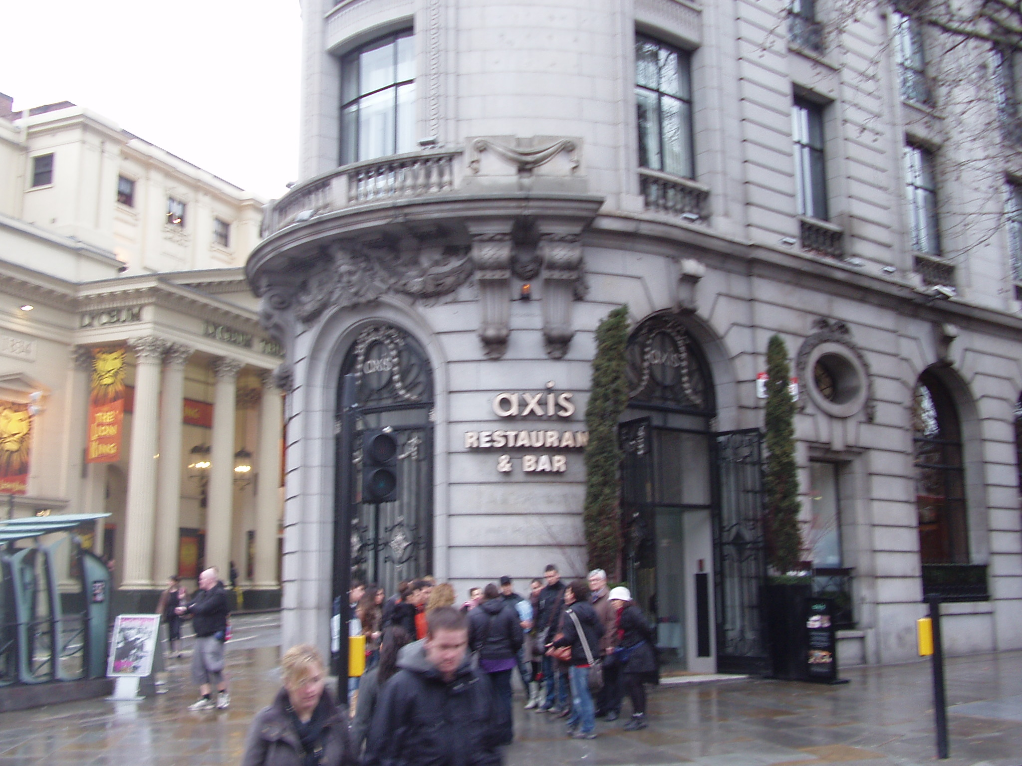 Axis restaurant of One Aldwych hotel, London.